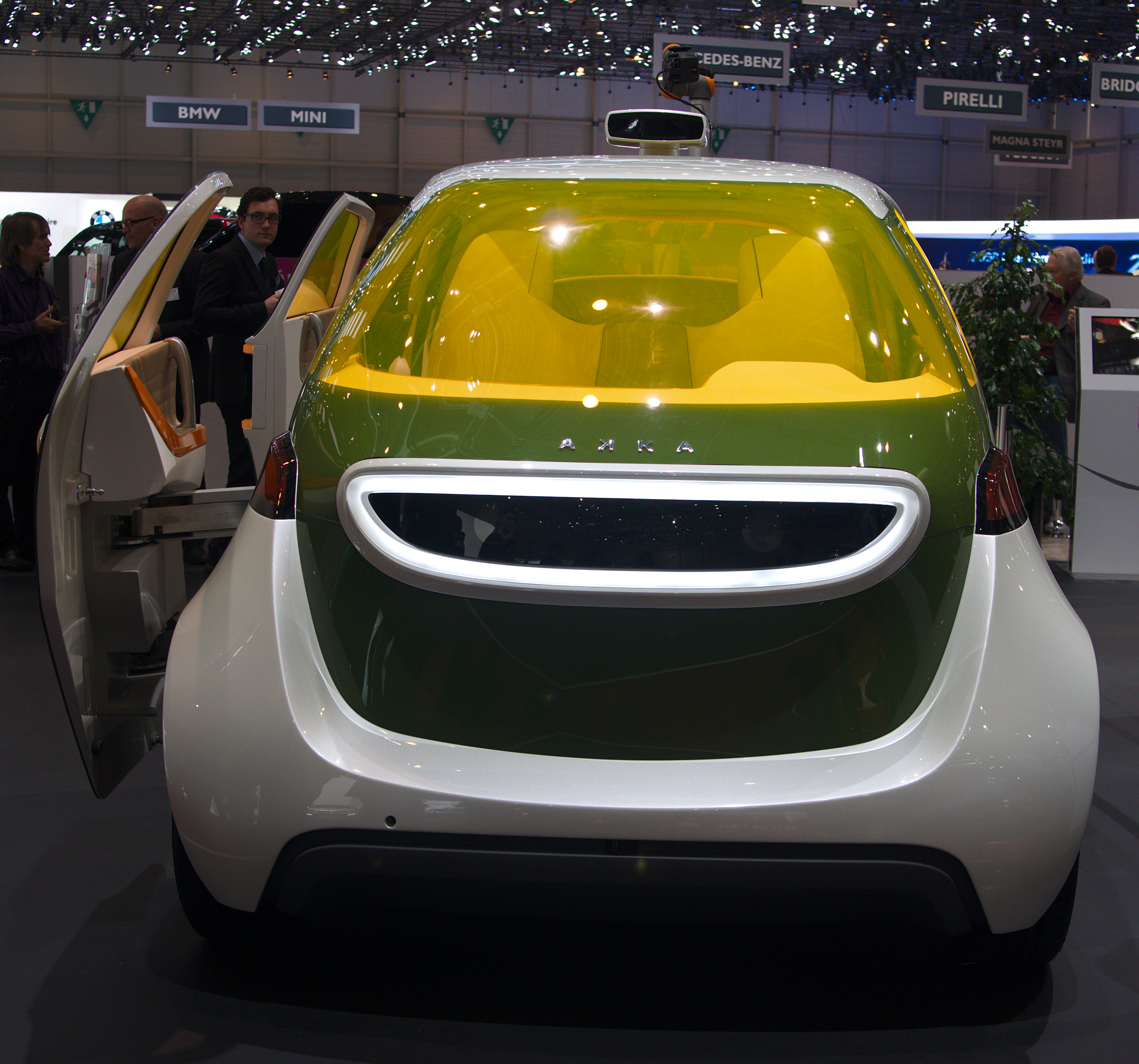 Geneva MotorShow 2013 - Akka Link&Go